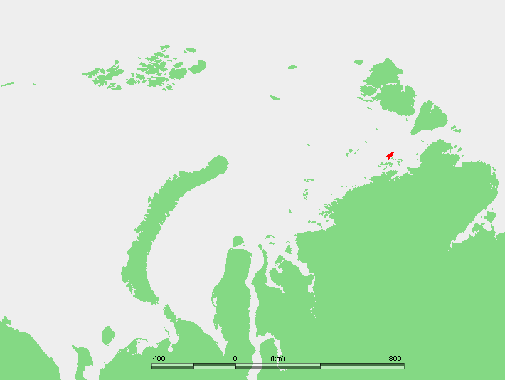 Nordensjelda Islands